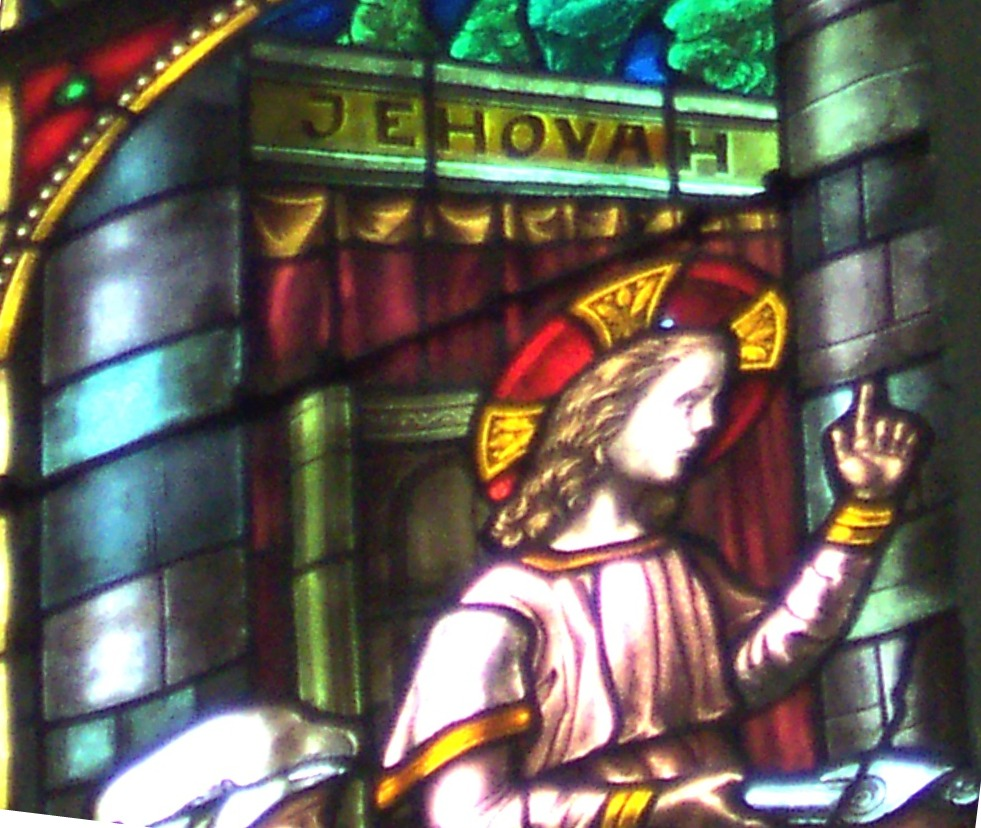 JEHOVAH at RomanCatholic Church Saint-Fiacre Dison Belgium